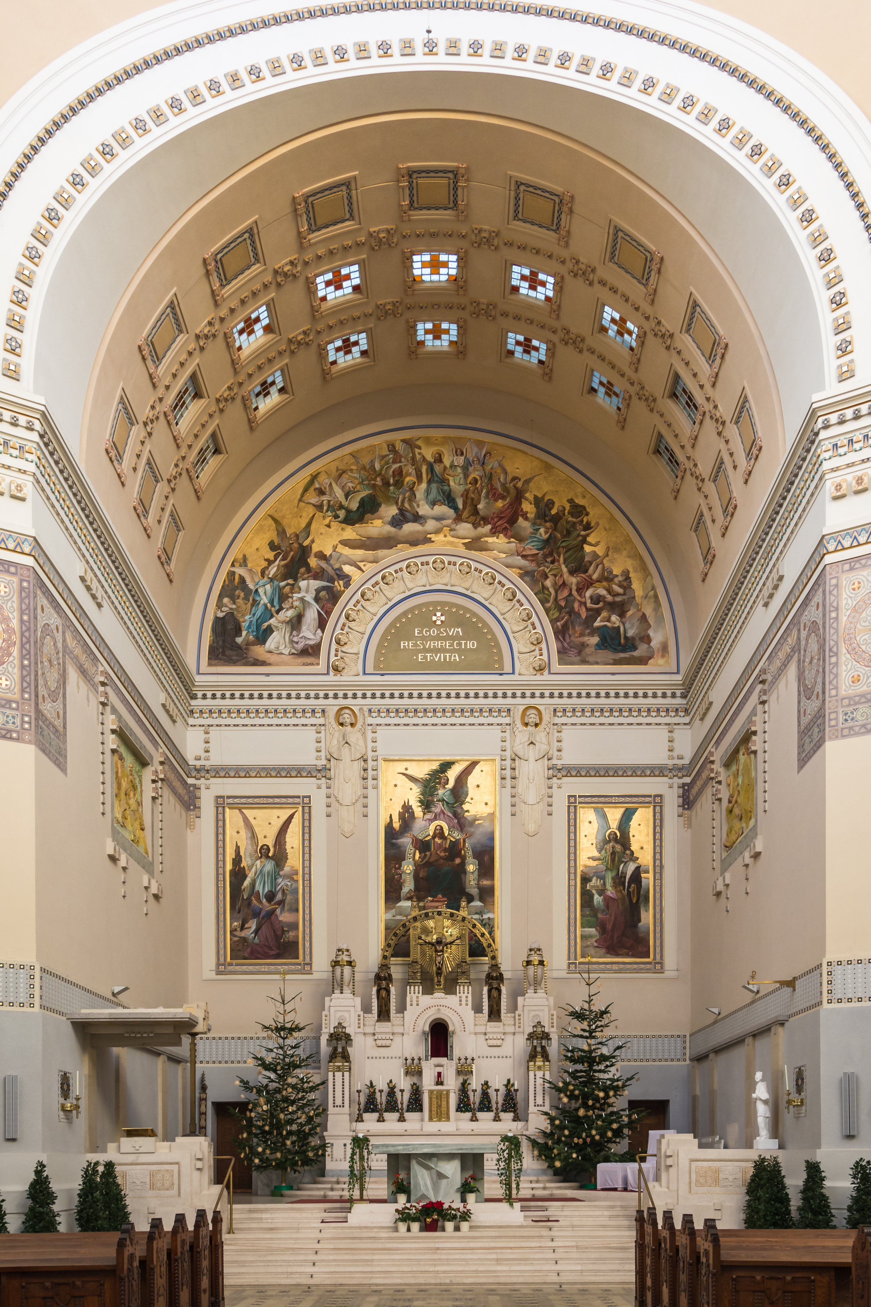 Choir of Saint Karl Borromaeus church at Central Cemetery, Vienna, Austria